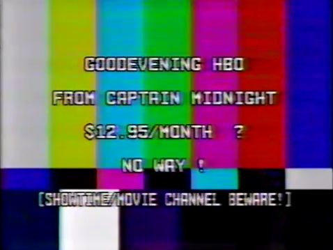 A still from the HBO "Captain Midnight" signal hijacking (See Captain Midnight broadcast signal intrusion) GOODEVENING HBO FROM CAPTAIN MIDNIGHT $12.95/MONTH ? NO WAY ! [SHOWTIME/MOVIE CHANNEL BEWARE!]